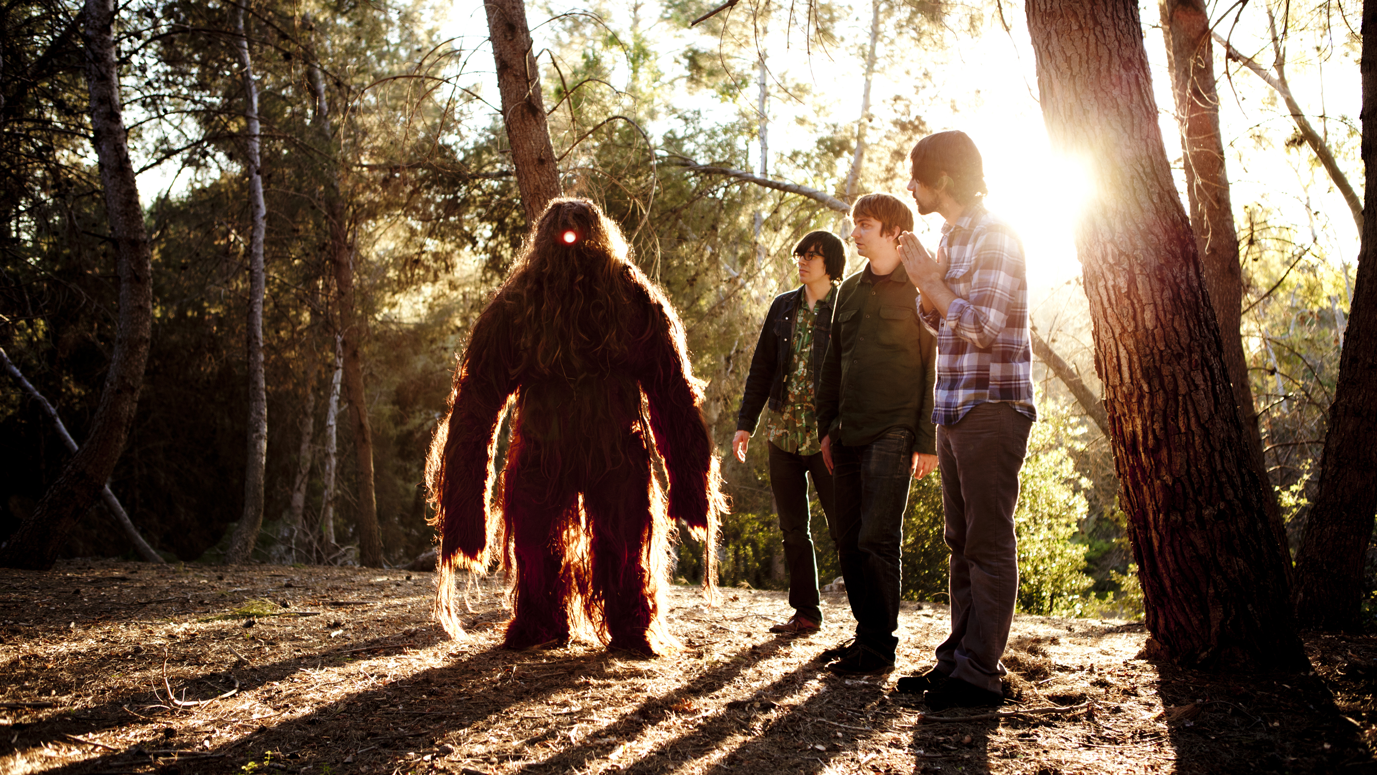 Official 2013 press photo of Dead Meadow